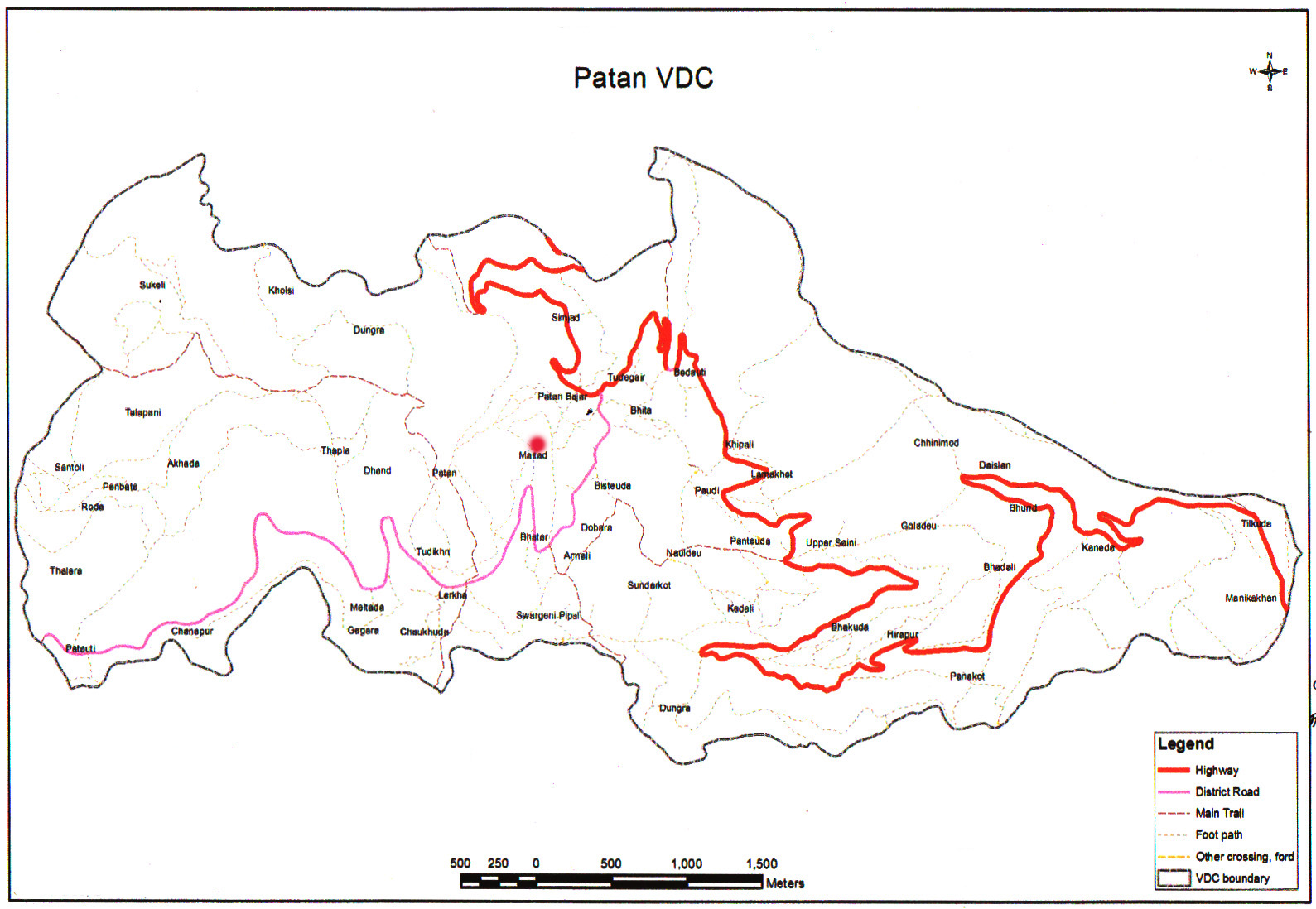 पाटन गा.बि.स.का टोलहरू र पाटनकाे सडक सञ्जाल